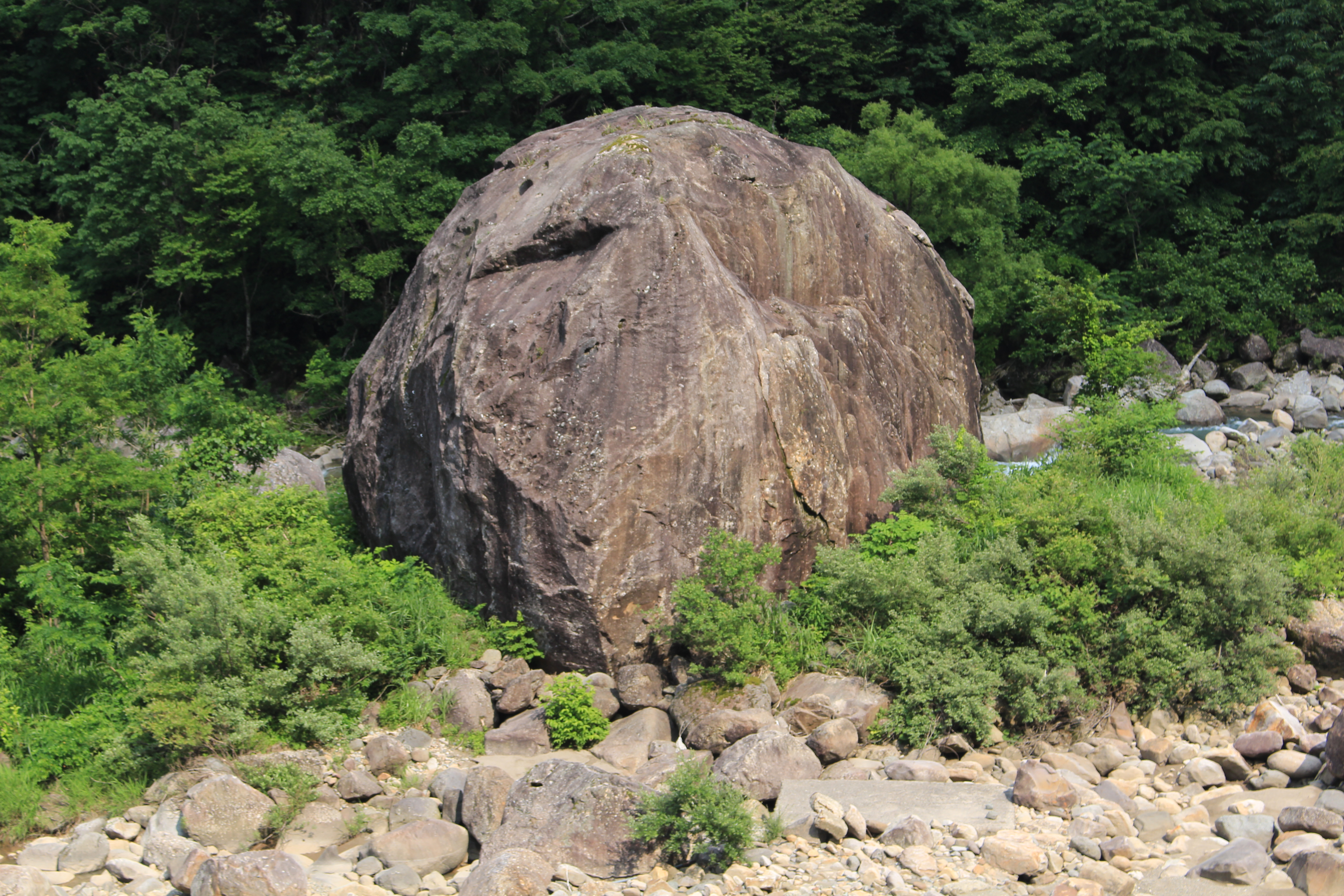 Hyakuman-gan Rock in Shiramine, Hakusan, Ishikawa prefecture, Japan.